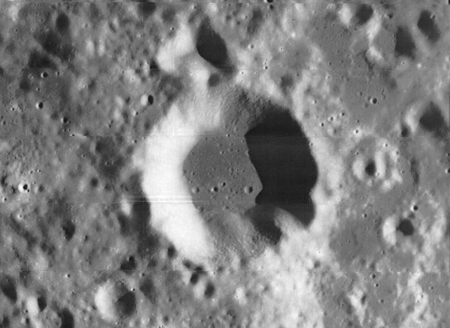 Image of lunar crater Townley with surroundings, taken by Lunar Orbiter 1. The preview image 1029_med.jpg was reduced in size to 67% of normal, then cropped to focus on the crater.